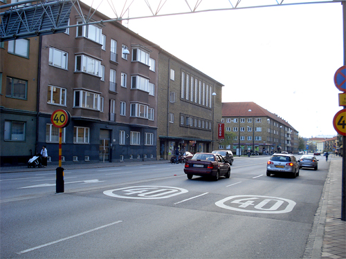 Amiralsgatan, Malmö, Sweden